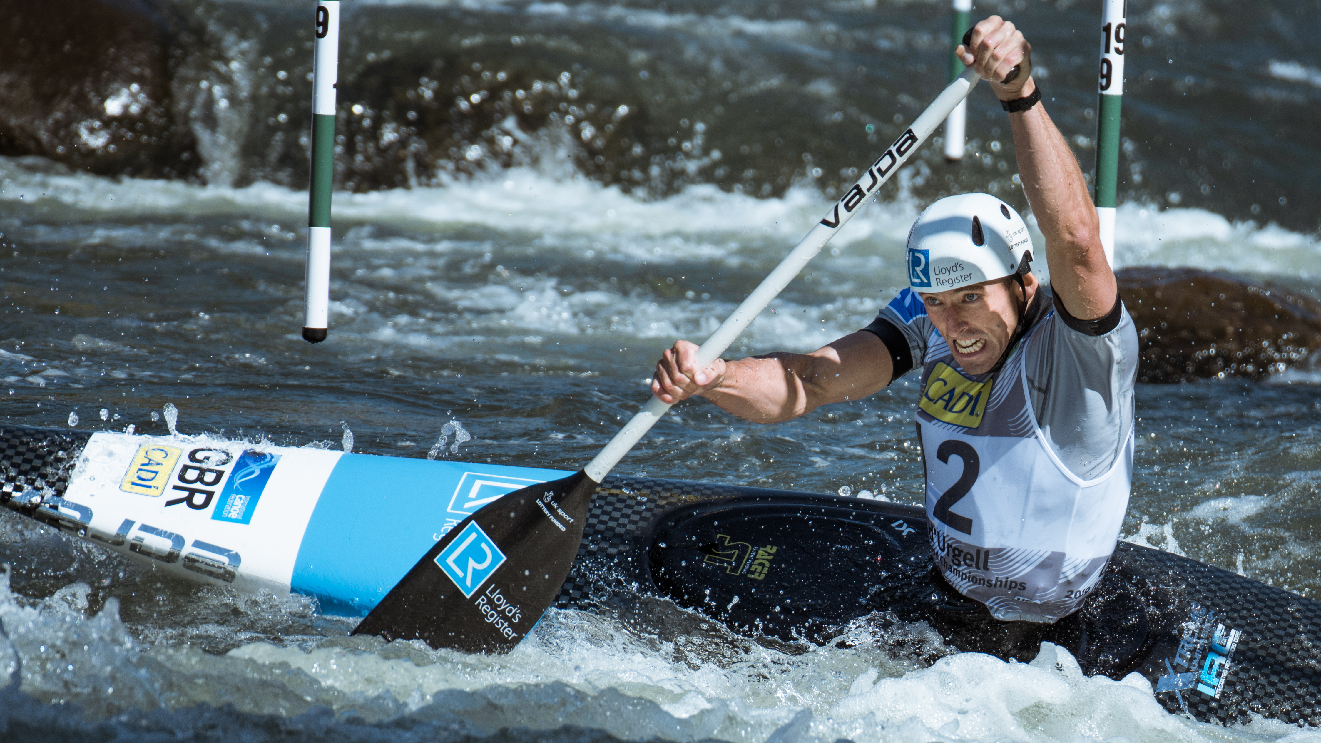 David Florence during the 2019 Canoe Slalom World Championships in La Seu d'Urgell, Spain.